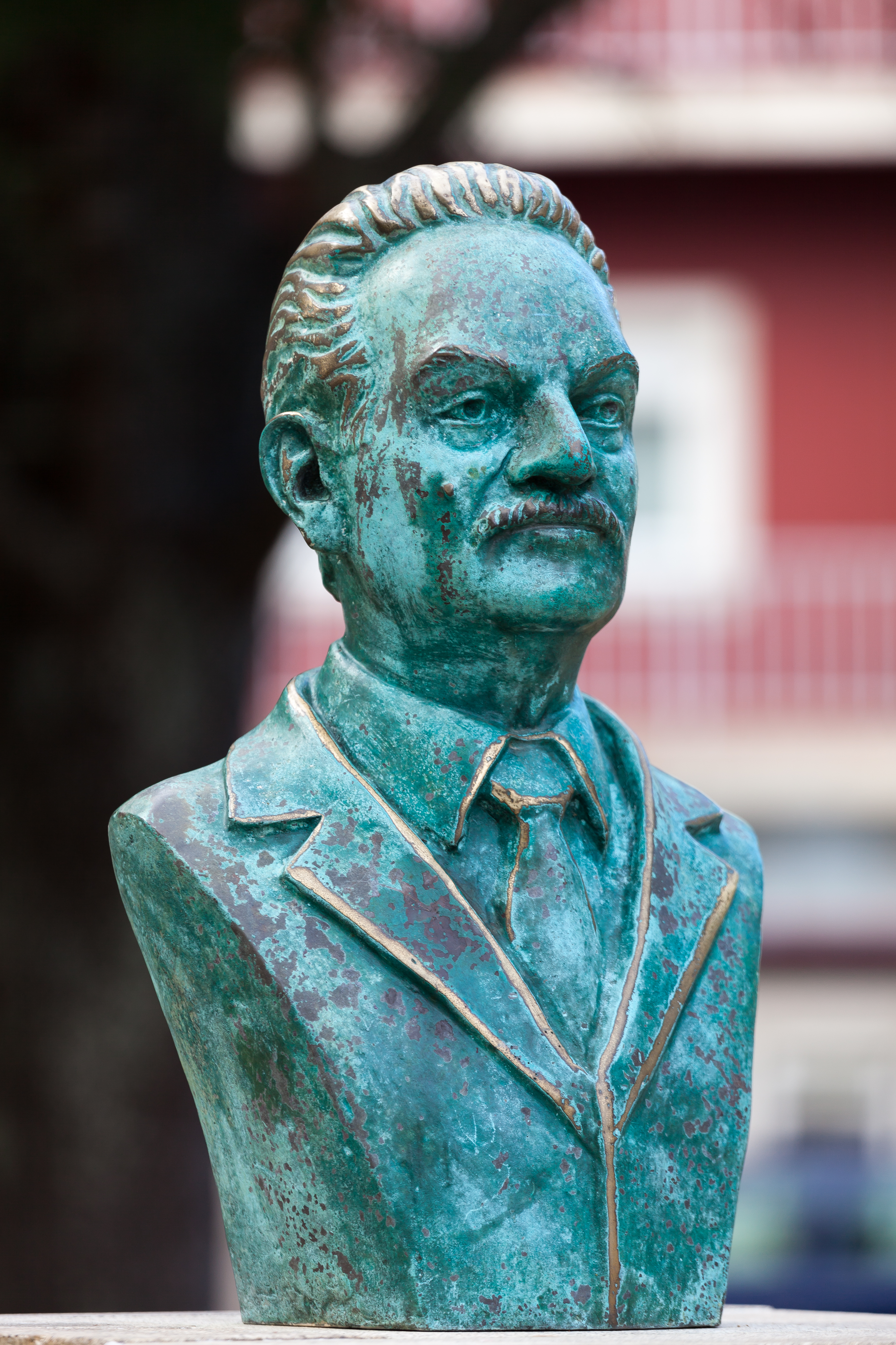 Bust of Xosé Agrelo Hermo in Esteiro, Muros, Galicia (Spain)